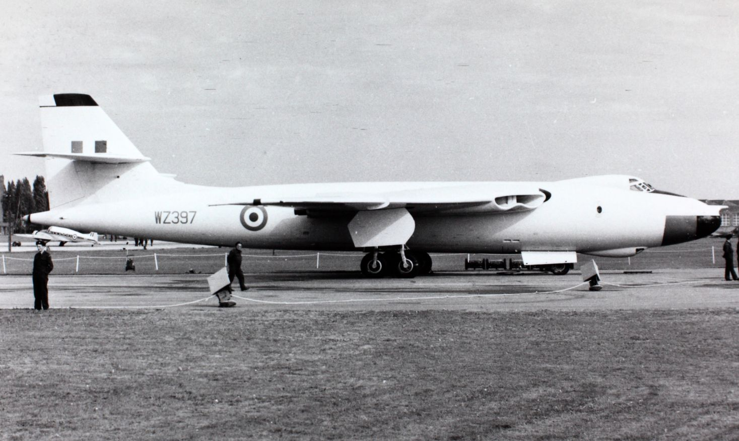 Image from the Charles Daniels Photo Collection album "British Aircraft." SOURCE INSTITUTION: San Diego Air and Space Museum Archive